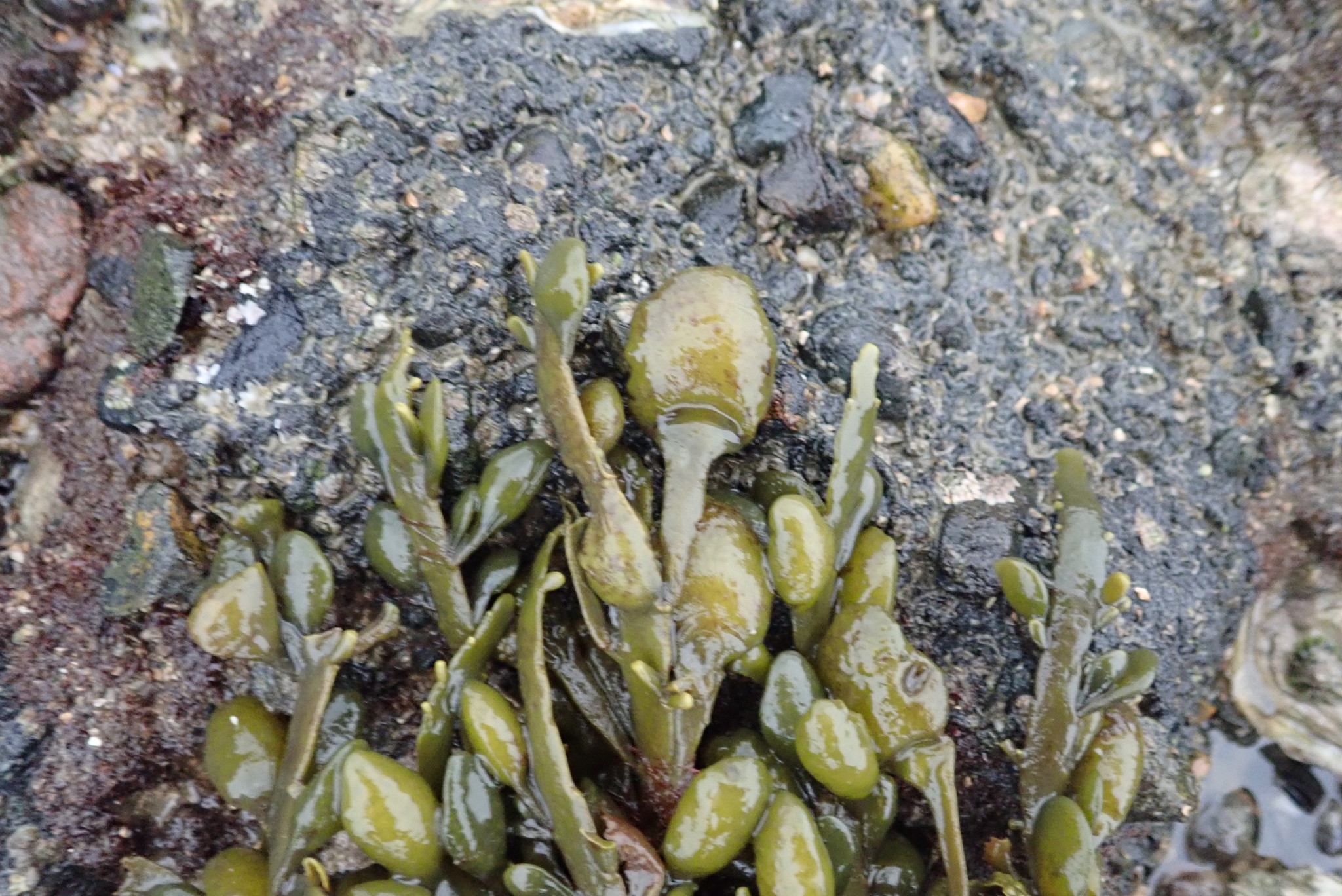 Ascophyllum nodosum observed in Kapelle, Oosterschelde, Zeeland (Netherlands)